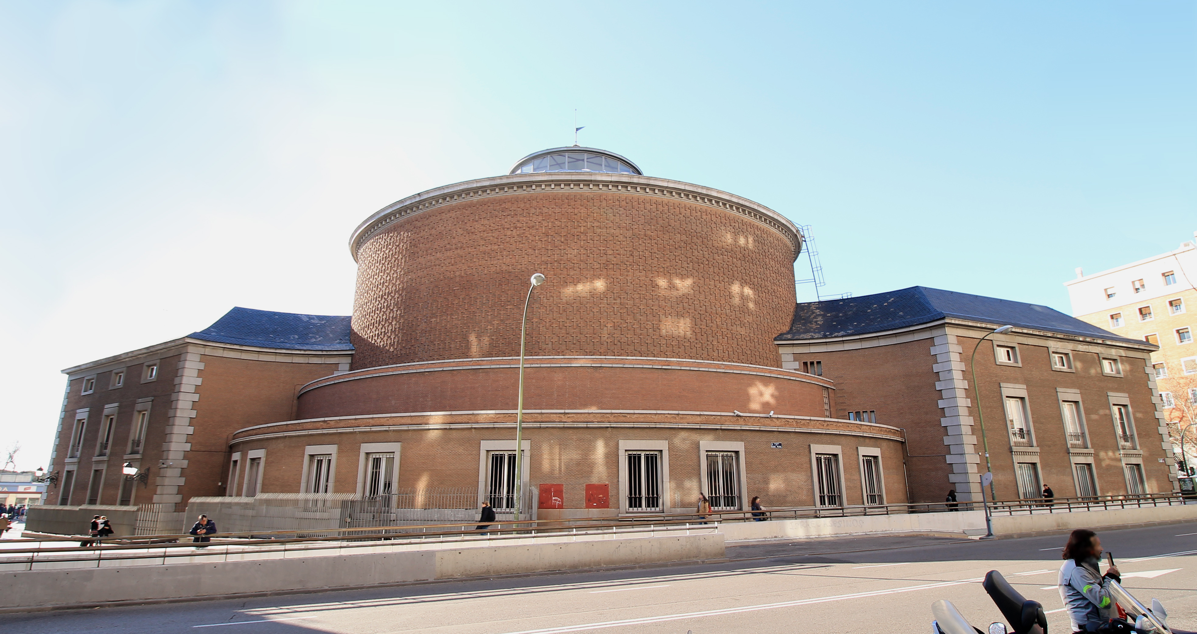 View of Moncloa-Aravaca District Hall in Madrid (Spain) from the south-east angle.